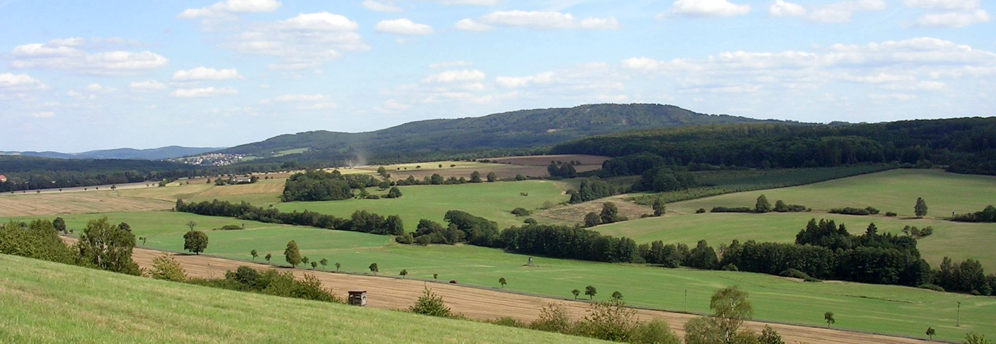 Rakovník District and Beroun District, Central Bohemian Region, the Czech Republic. A views of village of Nový Jáchymov and Krušná hora Hill from Špička Hill. - Google Maps - Google Earth